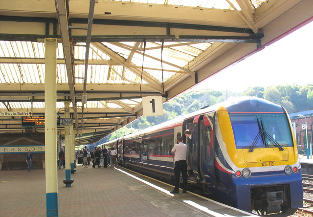 The Holyhead-Cardiff Arriva Wales train at Bangor Station This train which departs Caergybi/Holyhead at 10.30 stops at Bangor at 11.03 and reaches Caerdydd Canolog/Cardiff Central at 15.20.